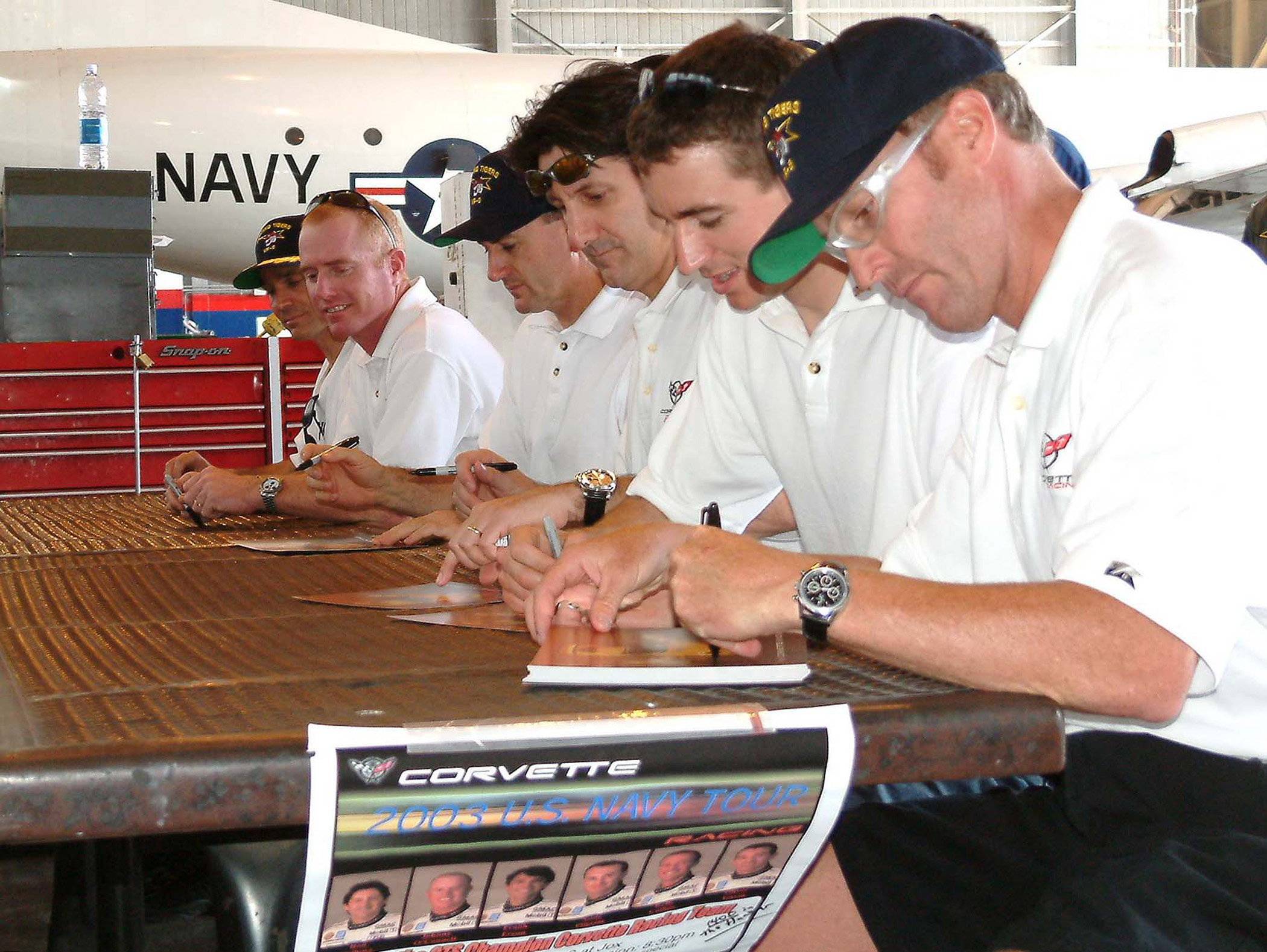 Naval Air Station (NAS), Sigonella, Sicily (May 6, 2003) -- Professional drivers Franck Freon, Johnny O'Connell, Andy Pilgrim, Ron Fellows, Oliver Gavin and Kelly Collins of the 2002/2003 GTS Champion Corvette Racing Team, sign autographs for Sailors assigned to the “Fighting Tigers” of Patrol Squadron Eight (VP-8) at NAS Sigonella. The team visited Sigonella as part of their 2003 U.S. Navy Tour. NAS Sigonella provides logistical support for Sixth Fleet and NATO forces in the Mediterranean Sea. U.S. Navy photo by Journalist Seaman Stephen P. Weaver. (RELEASED)